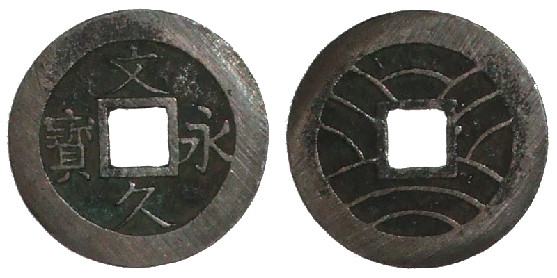 Bunkyu-eiho-shinbun